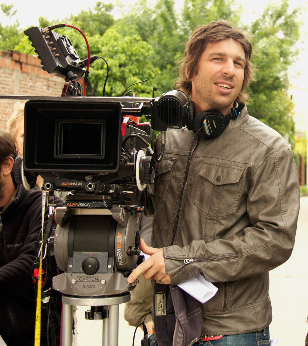 Hernan Aguilar, director of the film Madraza, operating the camera.